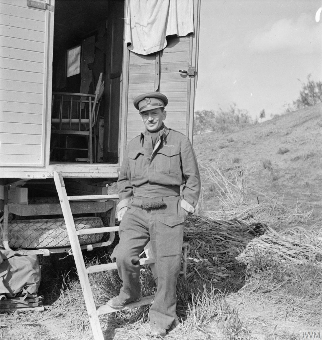 British Generals 1939-1945 Major General Sir Francis de Guingand (1900 - 1979): Brigadier F W De Guingand, Chief of Staff to General Montgomery outside Montgomery's caravan, Tripoli.